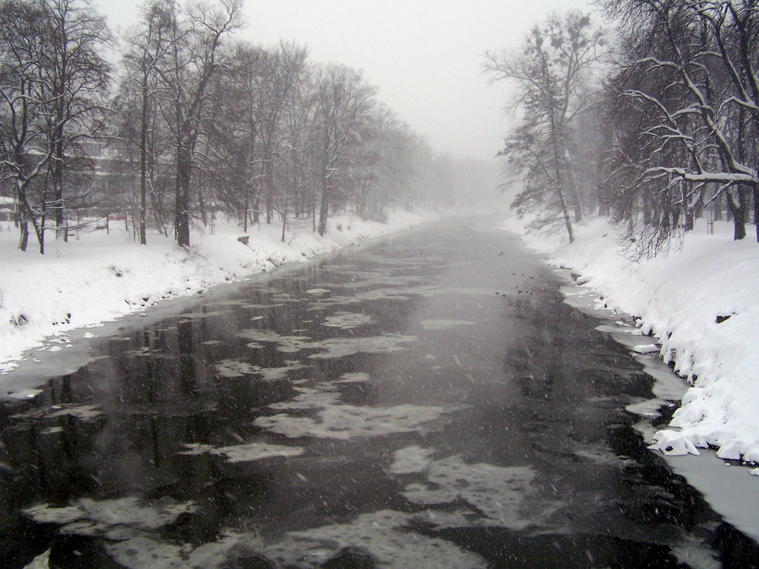 Winter in Cieszyn (Těšín). Olza River as seen from the Liberty Bridge.